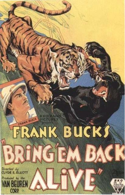 Poster for Bring 'Em Back Alive (1932). use rationale in Bring 'Em Back Alive (1932 film) This image is being used to illustrate the article on the movie in question and is used for informational or educational purposes only. This image is of low resolution. It is believed that this image will not devalue the ability of anyone to profit from the original work. No alternate image exists that can be used to illustrate the subject matter. Source: personal collection.